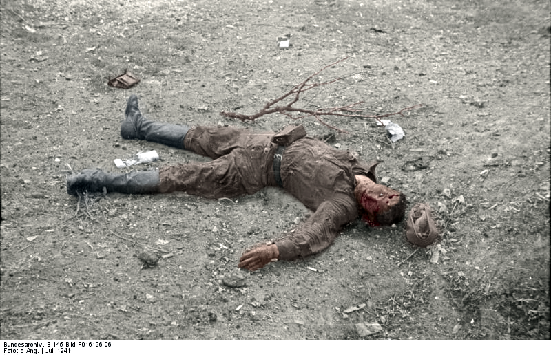 Killed Soviet soldier in Romania, killed during the German advancement towards Uman (Battle of Uman) at the Dniester.Depicted place RumänienDate July 1941date QS:P571,+1941-07-00T00:00:00Z/10Collection German Federal Archives Native nameDas BundesarchivLocationKoblenz (headquarters)Coordinates50° 20′ 32.71″ N, 7° 34′ 21.22″ E Established1946Web page control : Q685753 VIAF: 137346469 ISNI: 0000 0004 0555 2728 LCCN: n92025526 NLA: 36455393 Open Library: OL55798A WorldCat institution QS:P195,Q685753Current location Presse- und Informationsamt der Bundesregierung - Bildbestand (B 145 Bild)Accession number B 145 Bild-F016196-06 Source This image was provided to Wikimedia Commons by the German Federal Archive (Deutsches Bundesarchiv) as part of a cooperation project. The German Federal Archive guarantees an authentic representation only using the originals (negative and/or positive), resp. the digitalization of the originals as provided by the Digital Image Archive. Information added by Wikimedia users.